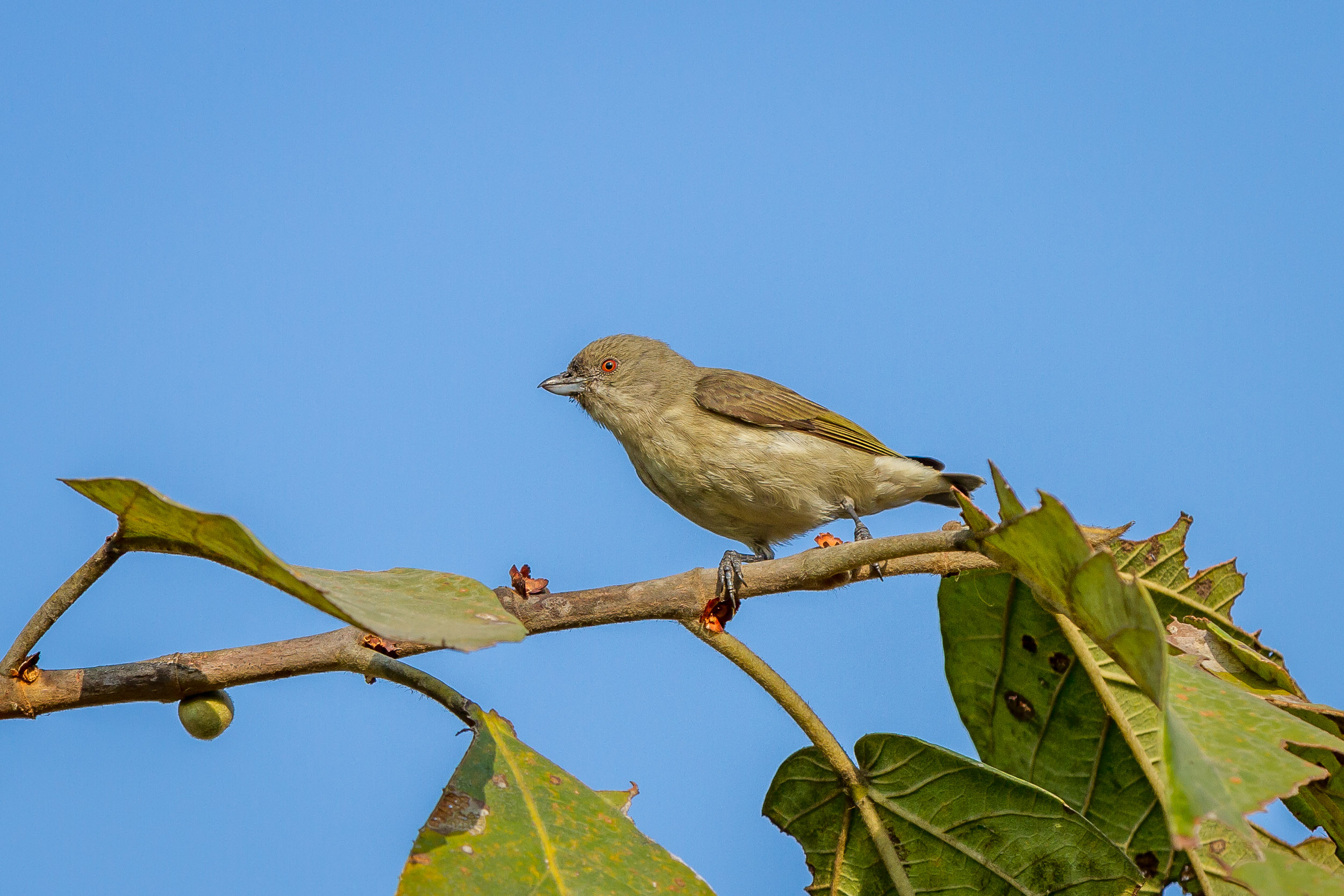 Thick-billed Flowerpecker from Kanha Tiger Reserve, Central India.